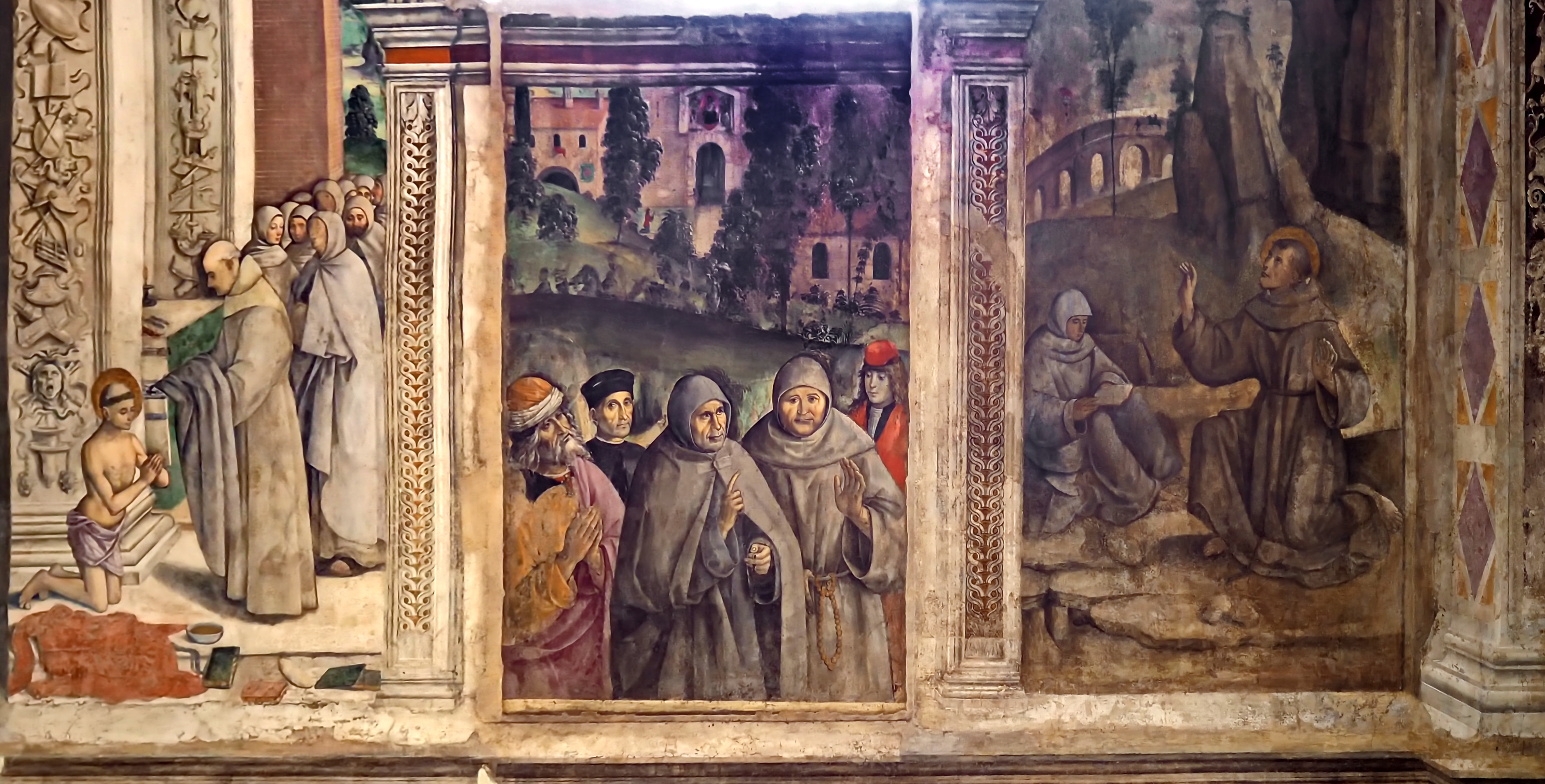 Santa Maria in Aracoeli (Rome); Cappella Bufalini-right wall